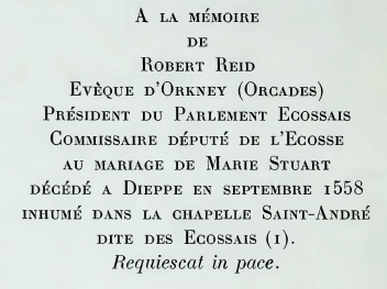 Taken from book: Legris, P. (1918), L'Église Saint-Jacques de Dieppe, Dieppe: G. Letremble, Libraire